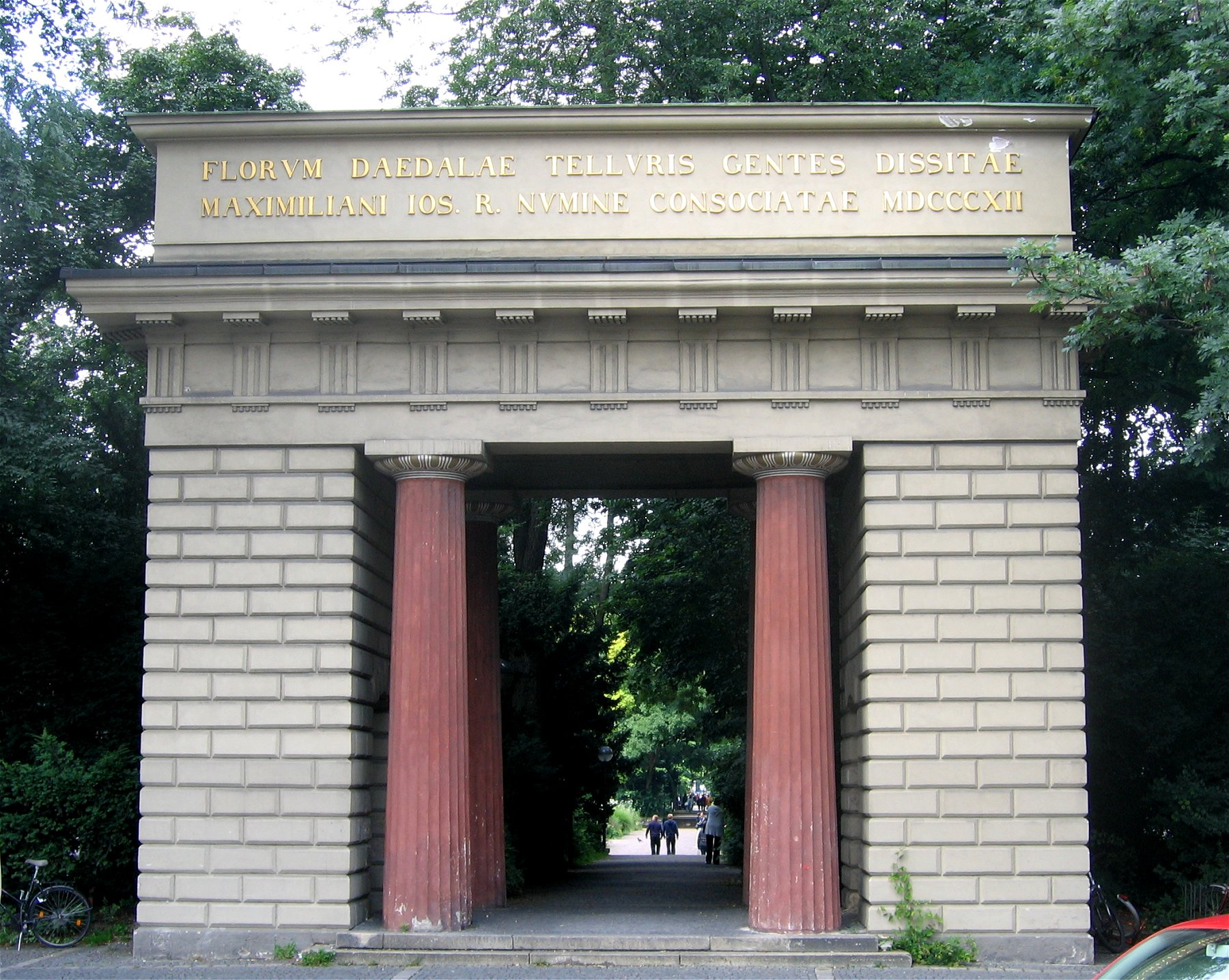 Entrance to the Old Botanic Garden, Munich, Germany